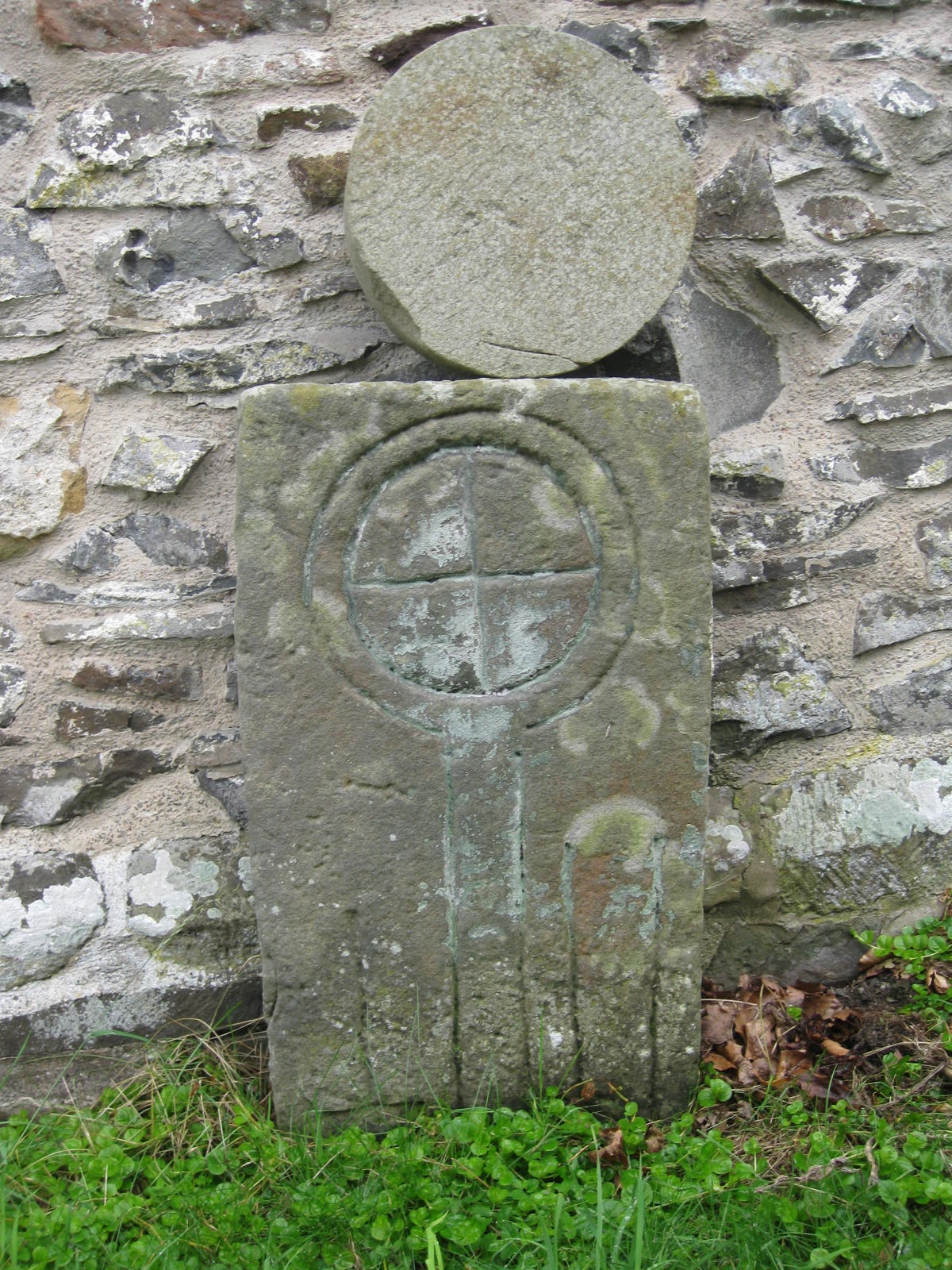 St Cedwyn, Llangedwyn. Early medieval tomb slab on chancel exterior.